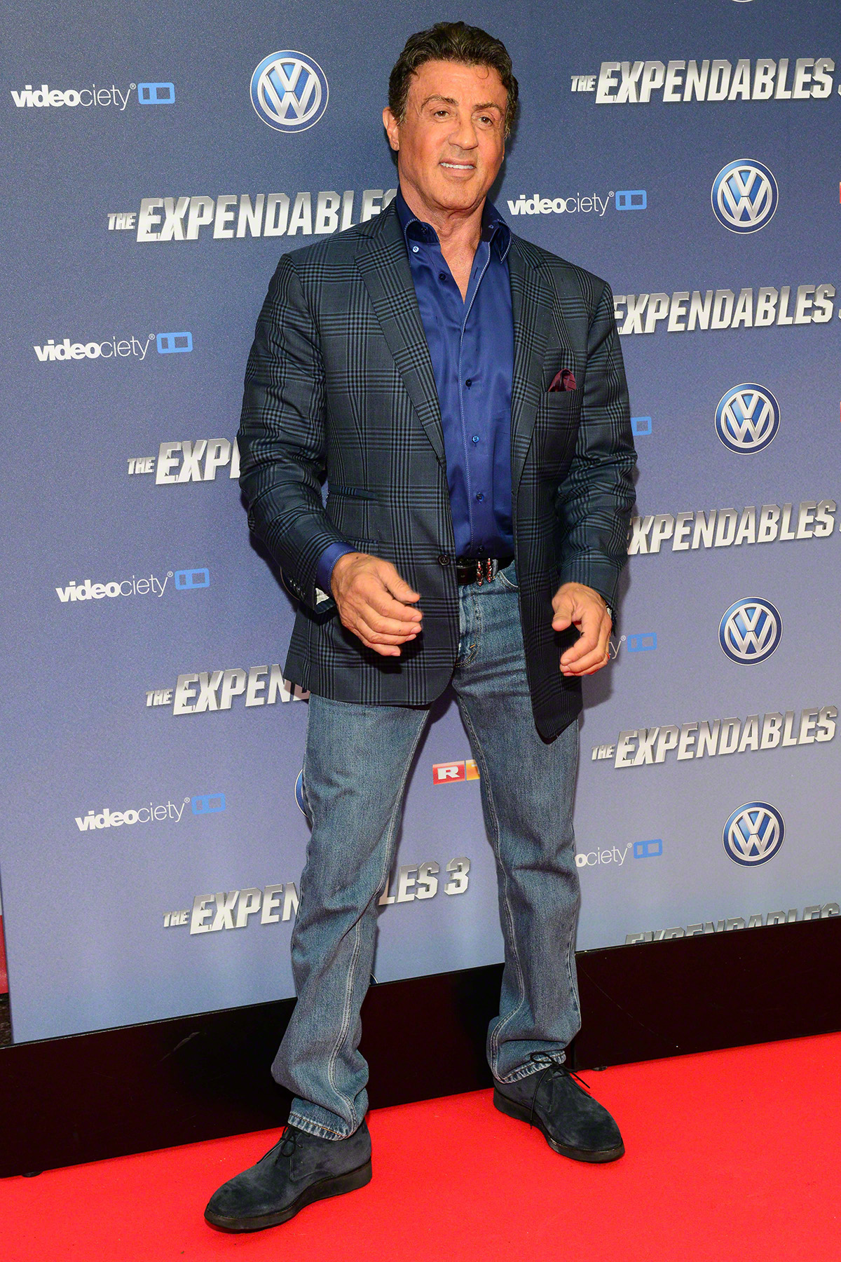 Sylvester Stallone attend the German premiere of the film "The Expendables 3" at Residenz cinema on August 6, 2014 in Cologne, Germany.